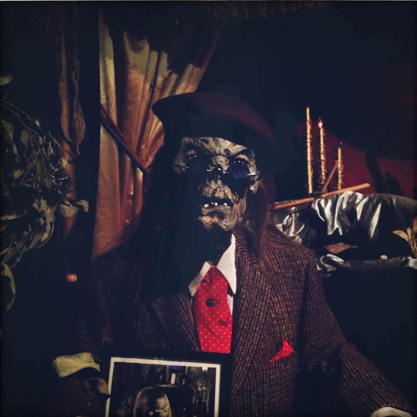 Puppet from the TV series Tales from the Crypt displayed at The Hollywood Museum, 1660 N. Highland Ave (at Hollywood Blvd), Hollywood, California, USA.